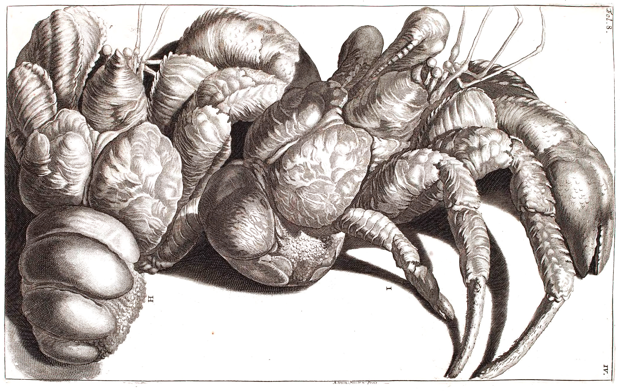 coconut crab plate from D'Amboinsche Rariteitkamer by Rumphius described as Cancer crumenatus, now Birgus latro